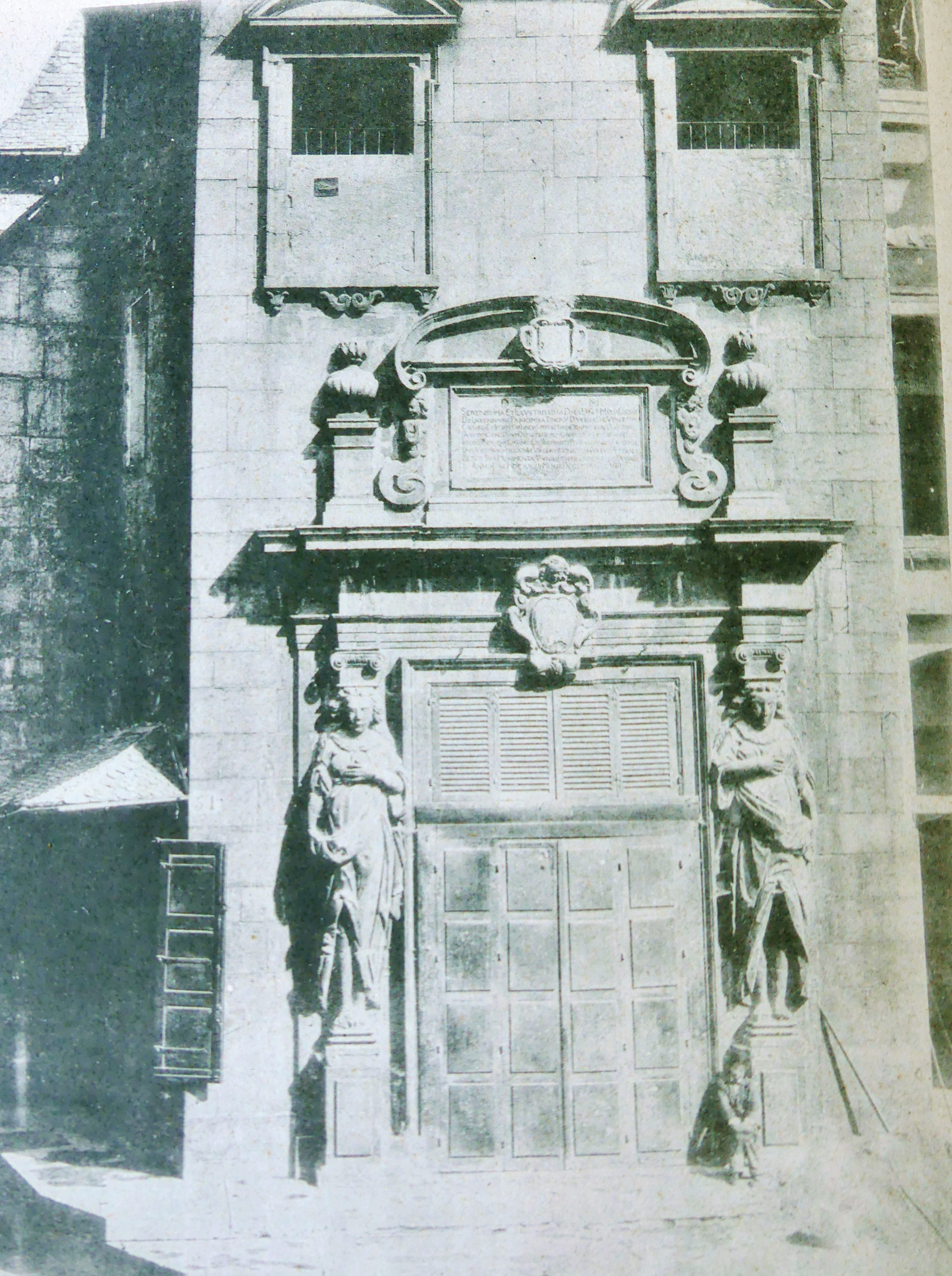 Sight of the entrance portal of the old Carmel monastery of Chambéry (Savoie, France), in Faubourg Montmélian neighborhood, demolished in 1861.